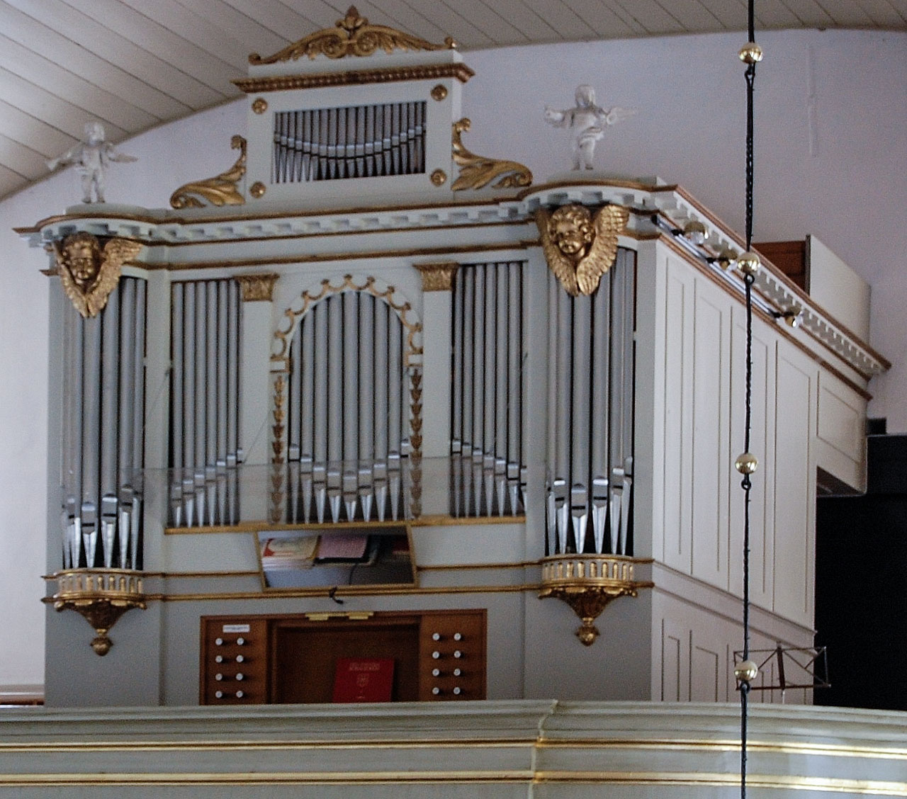 Långemåla Church.Organ